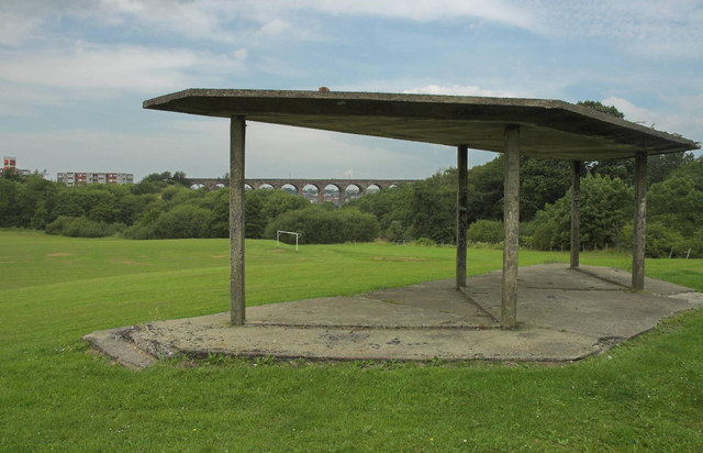 Murray Park, Cumnock. The Glaisnock Viaduct can be seen which carried the now disused Ayr- Edinburgh railway line.